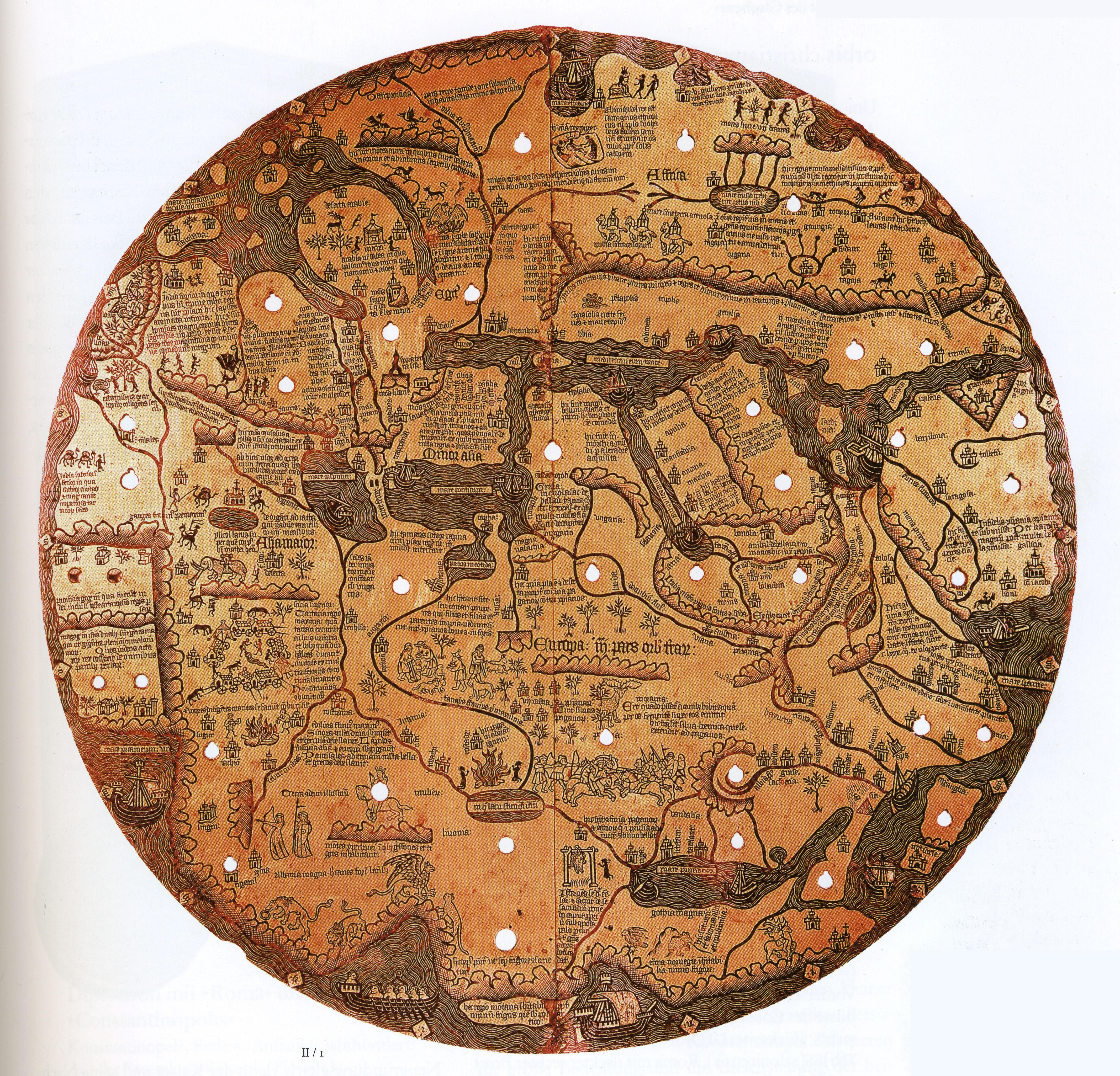 The Mappamondo Borgiano, anonymous 15th century map acquired by Cardinal Stefano Borgia in 1794 for the city of Velletri.